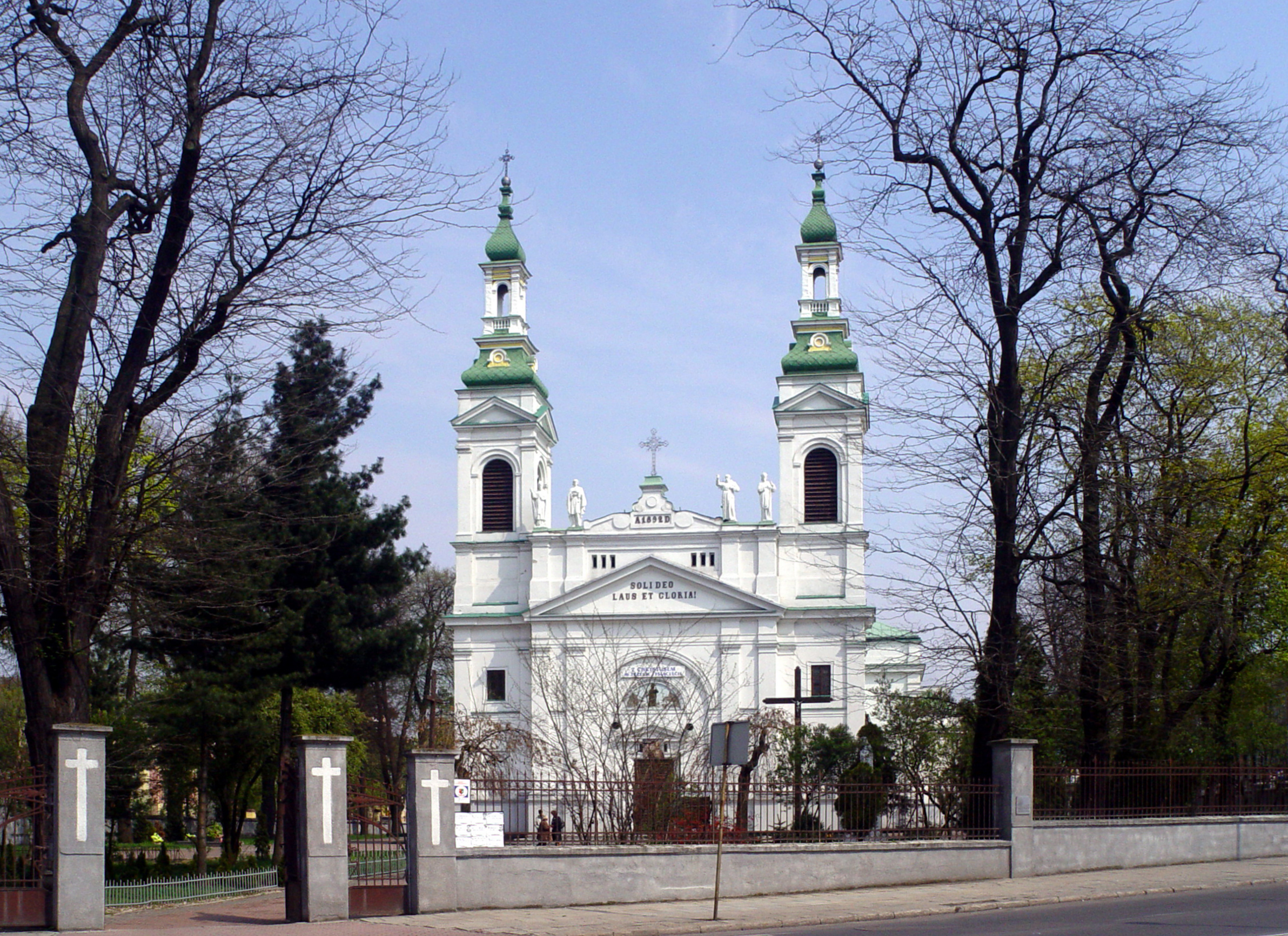 Tomaszów Mazowiecki: Parish church of St Anthony.